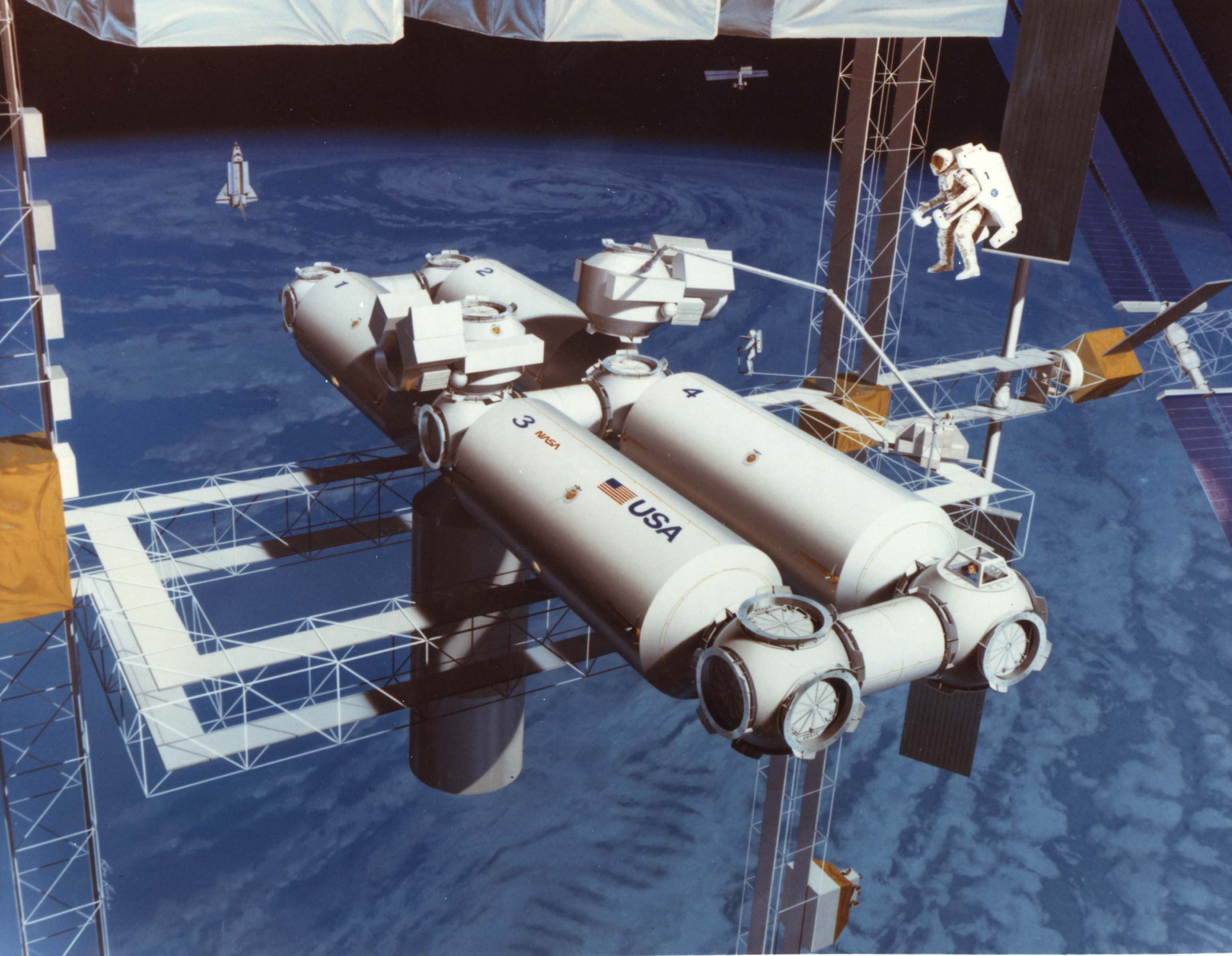 This McDonnell-Douglas concept drawing depicts a robotic arm controlled by an astronaut. The arm is being used to maneuver anew addition to the space station into place. The robotic arm was to have been essential to building the space station in orbit.